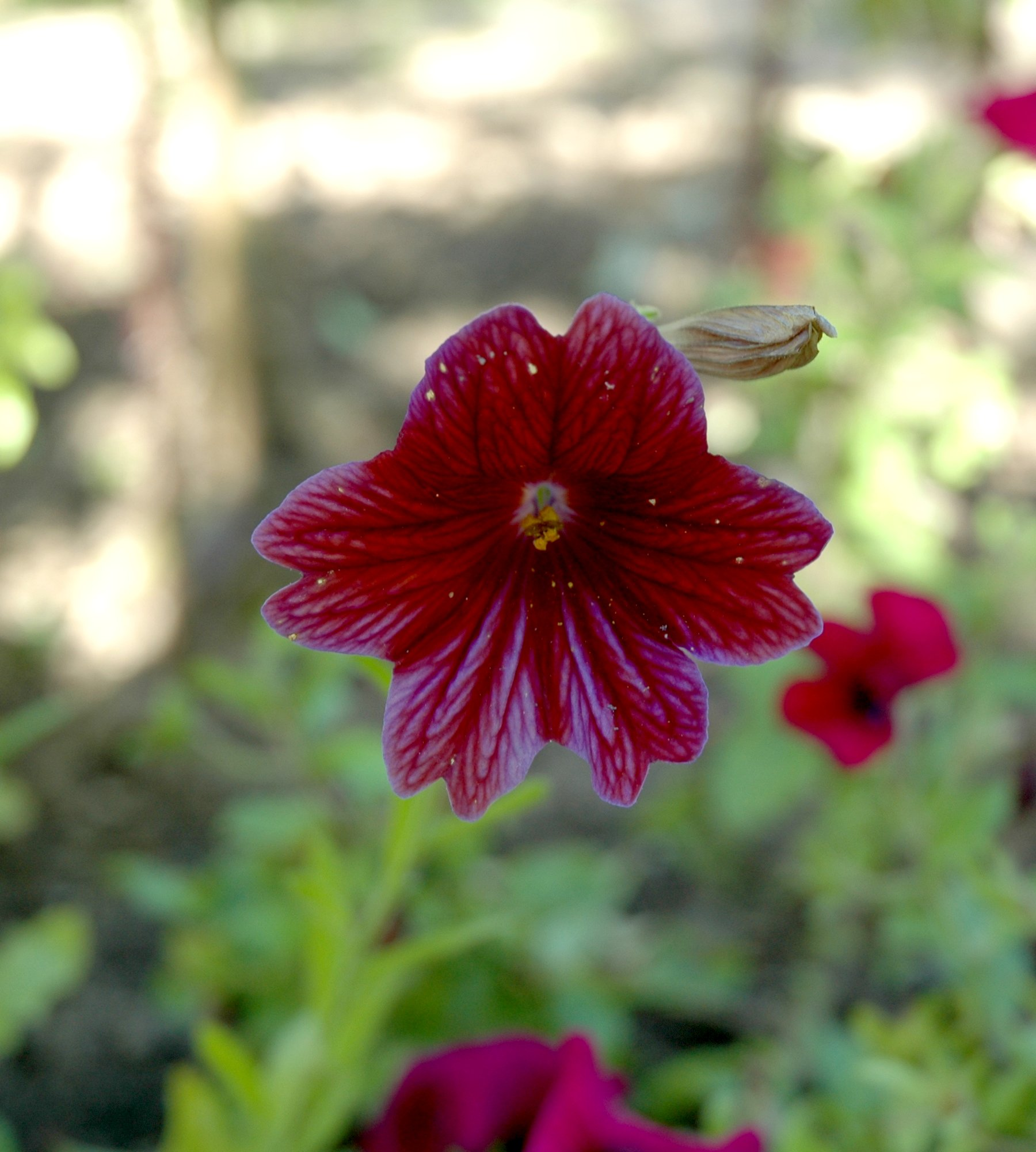 Flower of Salpiglossis sinuata (Solanaceae) at Jena Botanical Garden, Germany